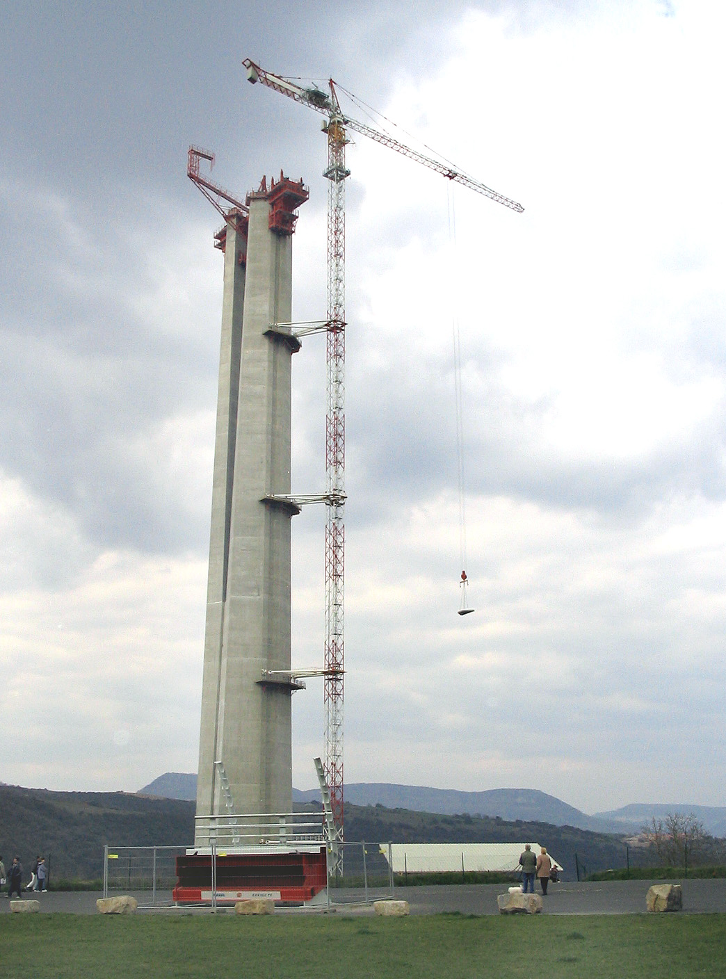 Author: Nepomuk. Transferred from the French Wikipedia under the original license.